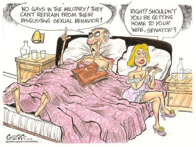 Hypocrits